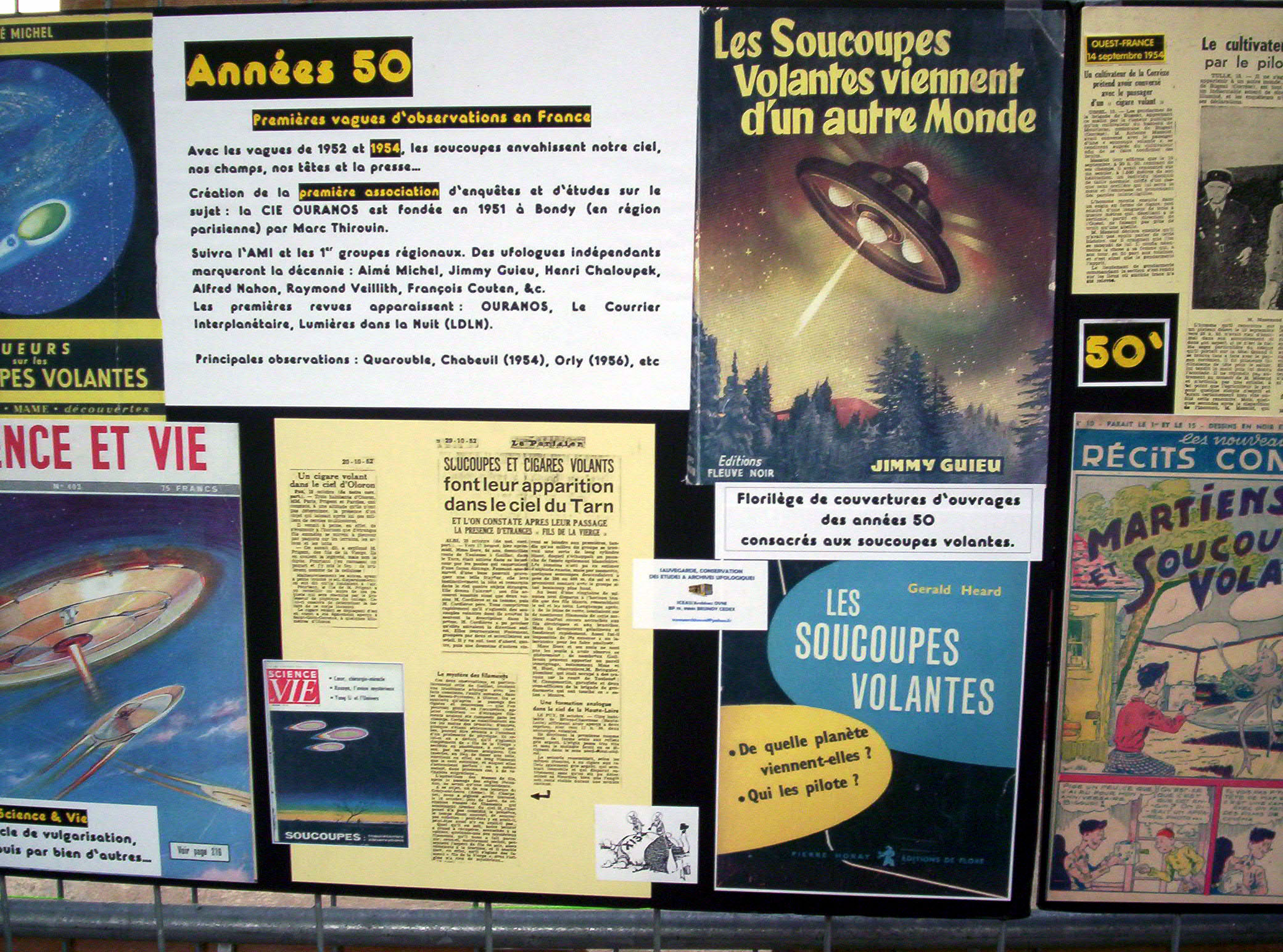 Details of a booth Europeen UFO Congress 2005, Chalons en Champagne (France): the first UFO encounters Chalons en Champagne, took place on 14, 15 and 16 October 2005.